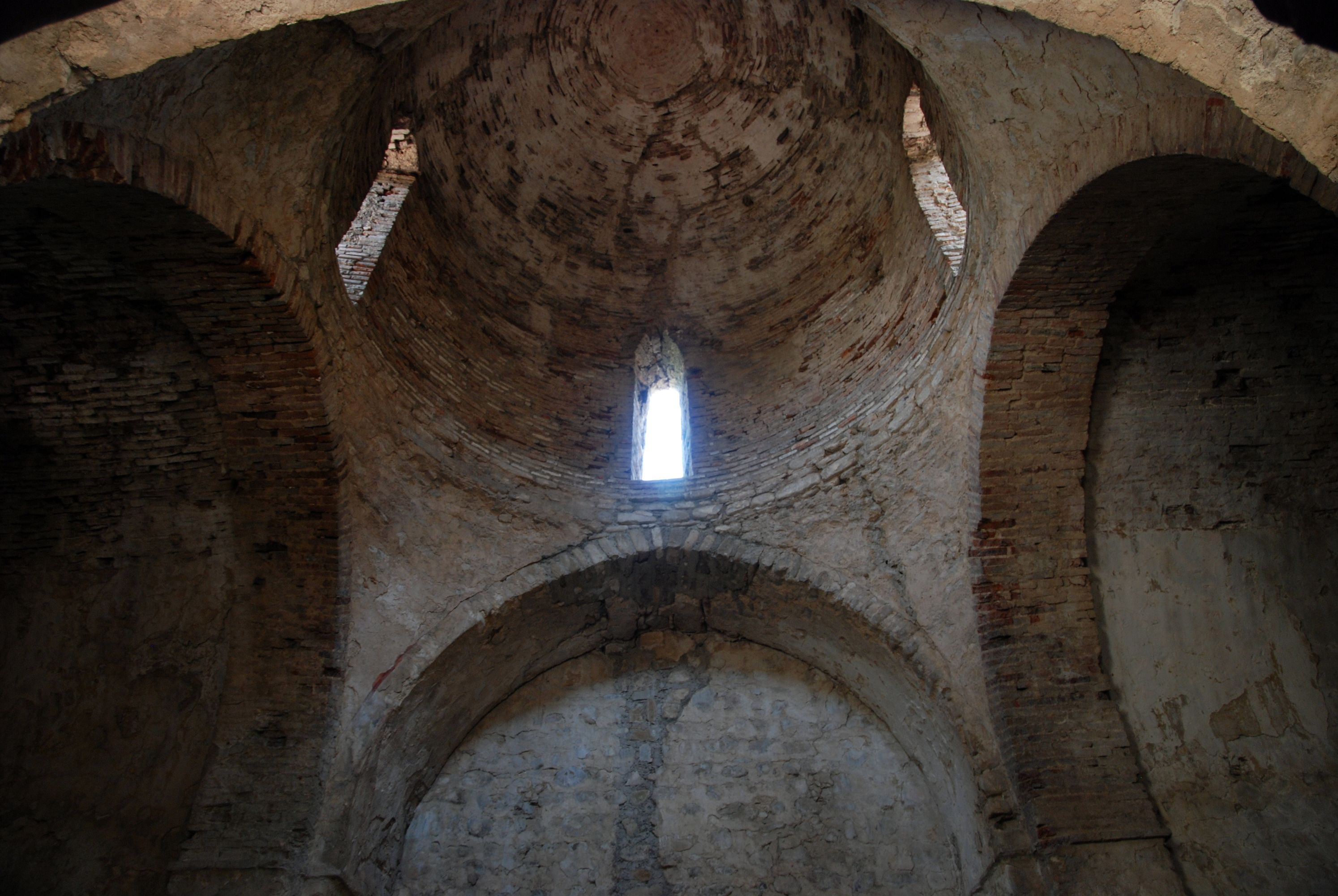 Vachnadziani Kvelatsminda, monastery church near Gurjaani